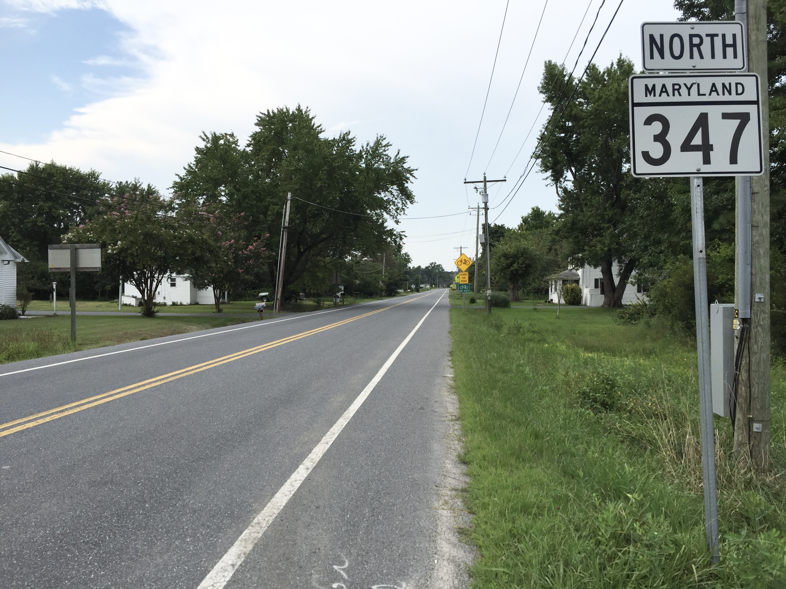 View north along Maryland State Route 347 (Quantico Road) at Maryland State Route 349 (Nanticoke Road) in Catchpenny, Wicomico County, Maryland